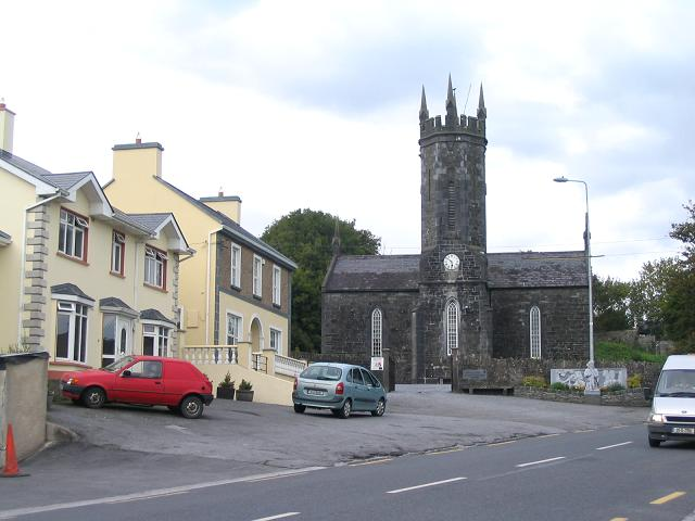 St Andrew's Church, Ennistymon, Co. Clare. Although the style of this church is described as "English Gothic", it has distinctive spirelets.